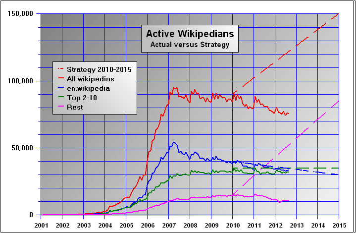 Active wikipedians, Actual versus Strategy Active wikipedians: Wikipedians who contributed 5 times or more in a given month, from Erik Zachte Strategy based on strategy:file:Wikimedia Participation Goal.png from Movement_Priorities#Increase_participation: Key Indicators Possible Targets Other MeasuresSignificant growth in number of active contributors. 150,000 by 2015[note 1] (10% annual growth in emerging projects and less than 5% overall negative change in active volunteer editors among mature projects. Recruiting new editors in mature projects and growth of emerging projects.[note 2] Retention rate of active volunteers Increase the number of editors who have engaged in talk page discussion. Reduce abandoned edits. (An abandoned edit is when editors click the edit button without clicking the save button.) The proportion of editors in under-represented groups increases. Healthy, open source developer community Growing and thriving Wikimedia Chapters * Number of effective chapters Notes: ↑ Current baseline: 100,000 active contributors (February 2010). ↑ "Mature" and "emerging" projects have not been rigorously defined.